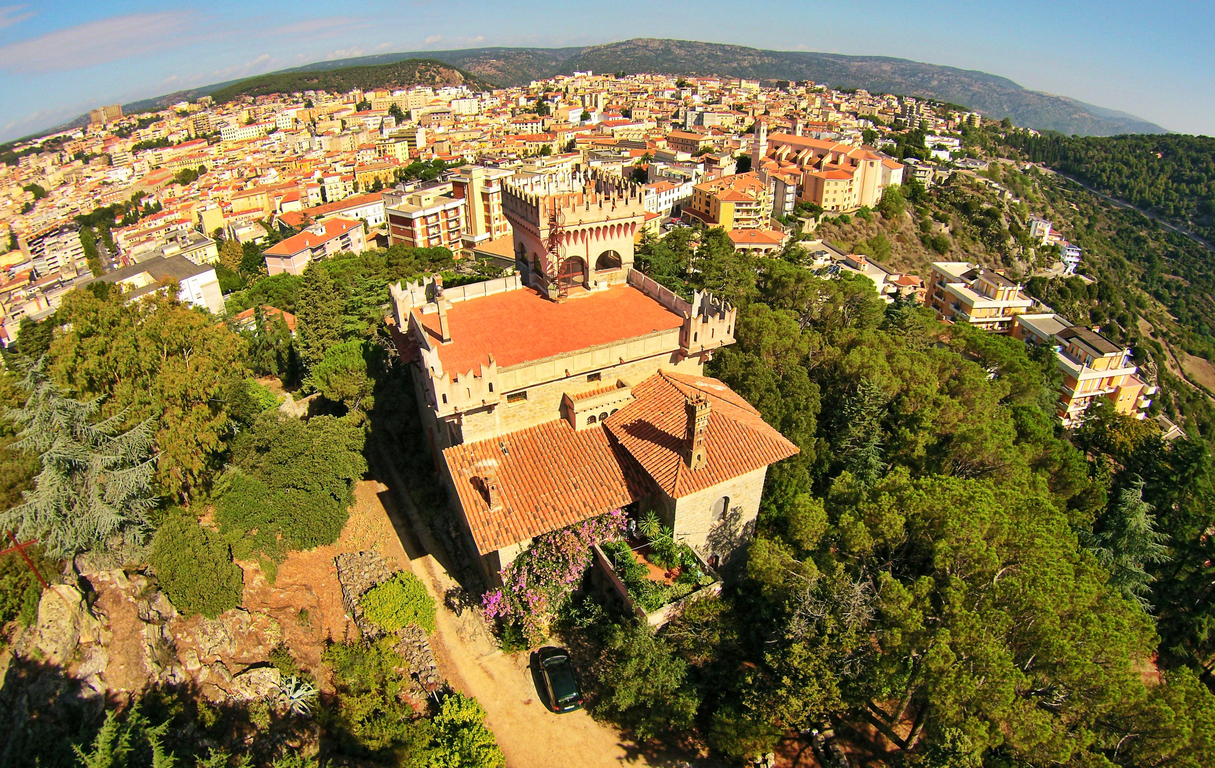 Castle of St. Onofrio, Nuoro